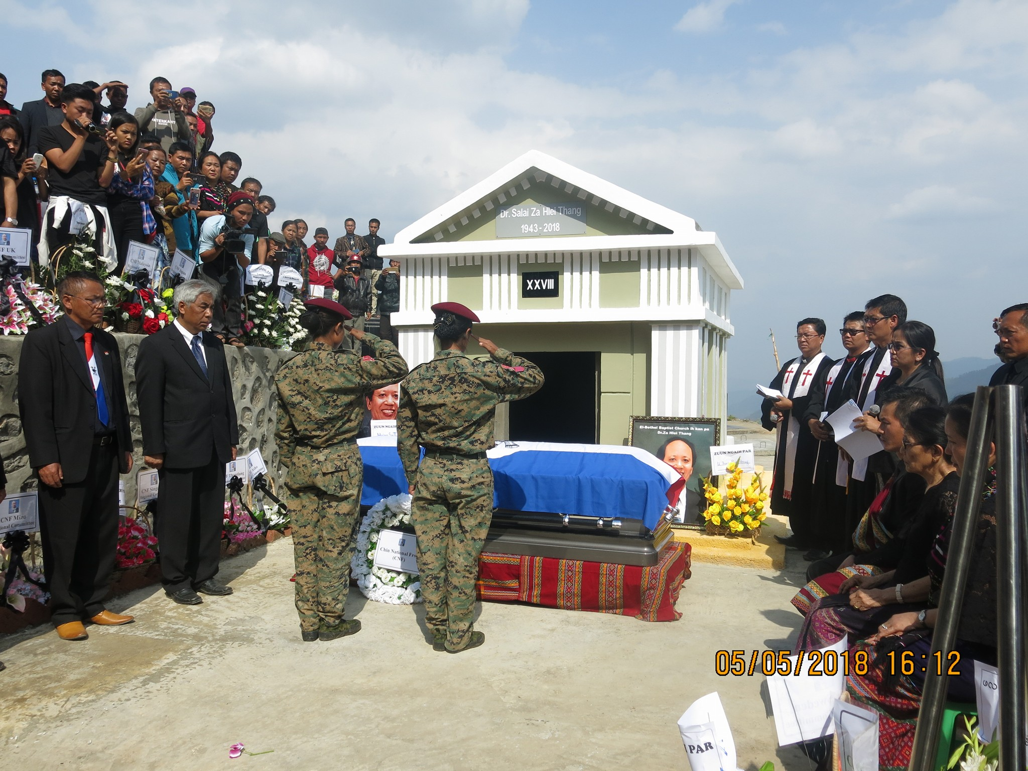 CNF soldiers give salute and honour at Dr. Za Hlei Thang funeral